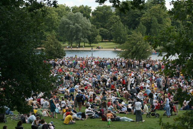 Hyde Park, Tour de France Day Many of the estimated two million people who were around Hyde Park for the Prologue stage of the Tour de France were content to lie back and soak up the atmosphere and following the race on several large TV screens dotted around the course. In the distance is The Serpentine.